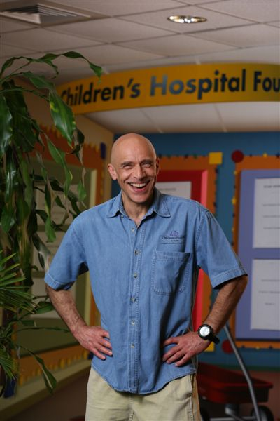 Willy volunteering at Children's Hospital